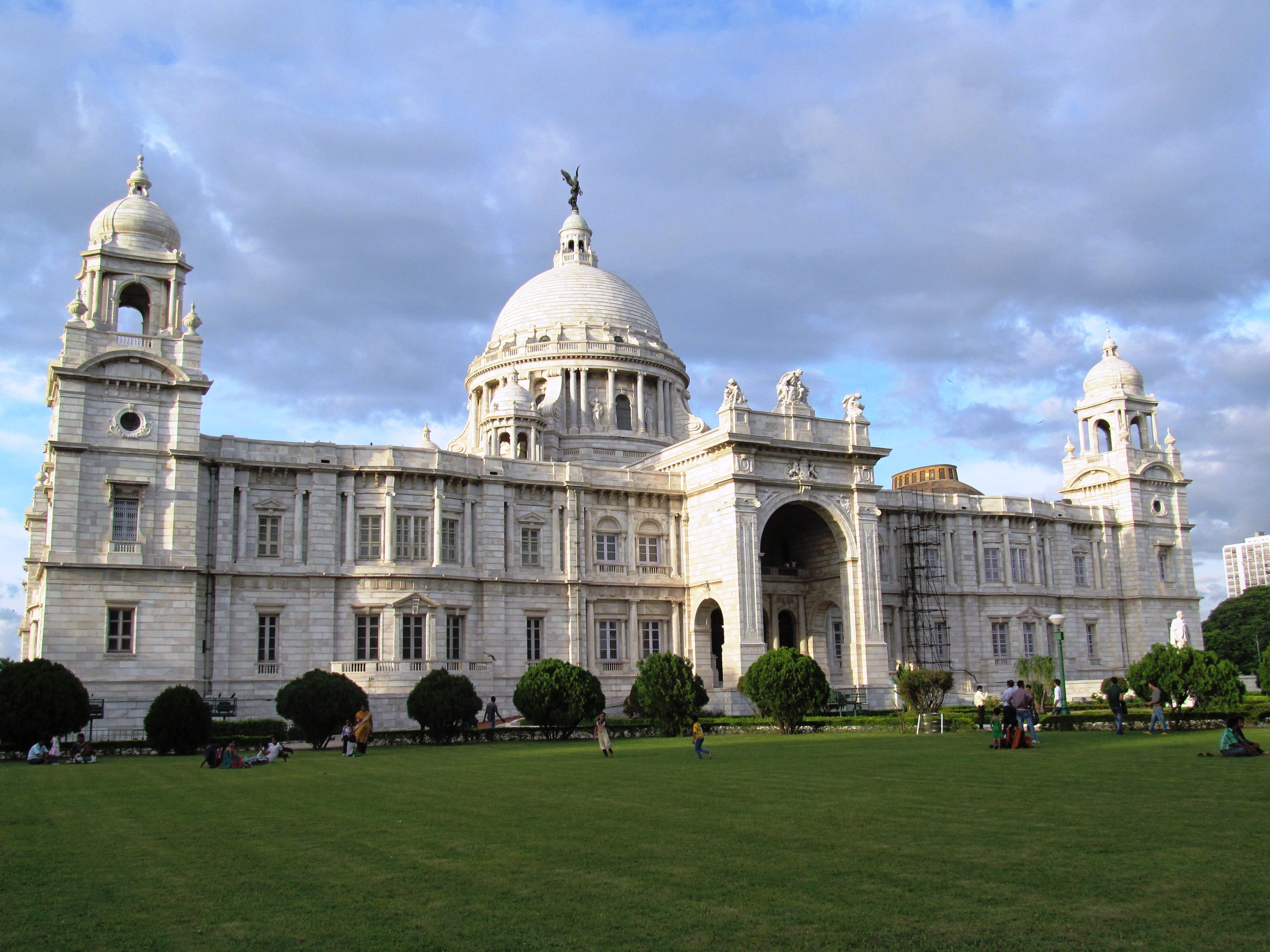 The Victoria Memorial, officially the Victoria Memorial Hall, is a memorial building dedicated to Victoria, Queen of the United Kingdom and Empress of India, which is located in Kolkata, India – the capital of West Bengal and a former capital of British India.